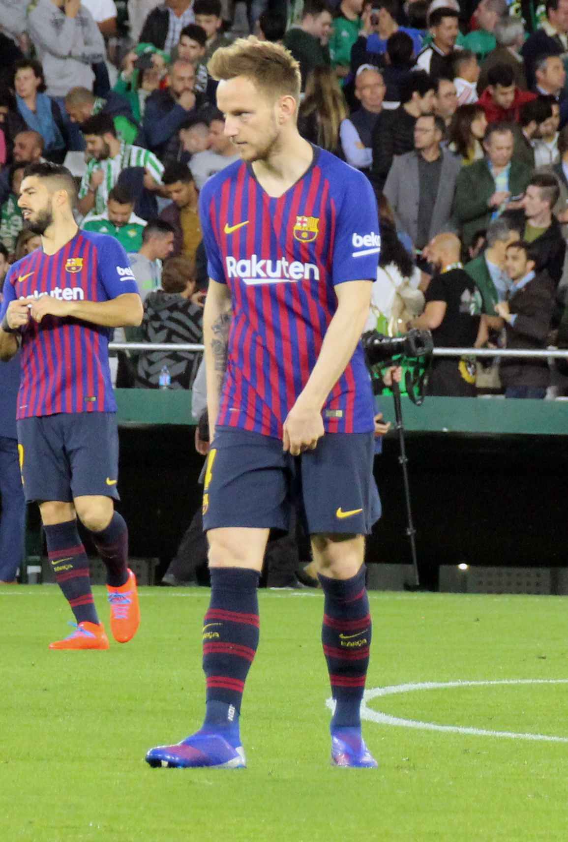 Rakitic during FC Barcelona game vs Real Betis, 17/03/2019